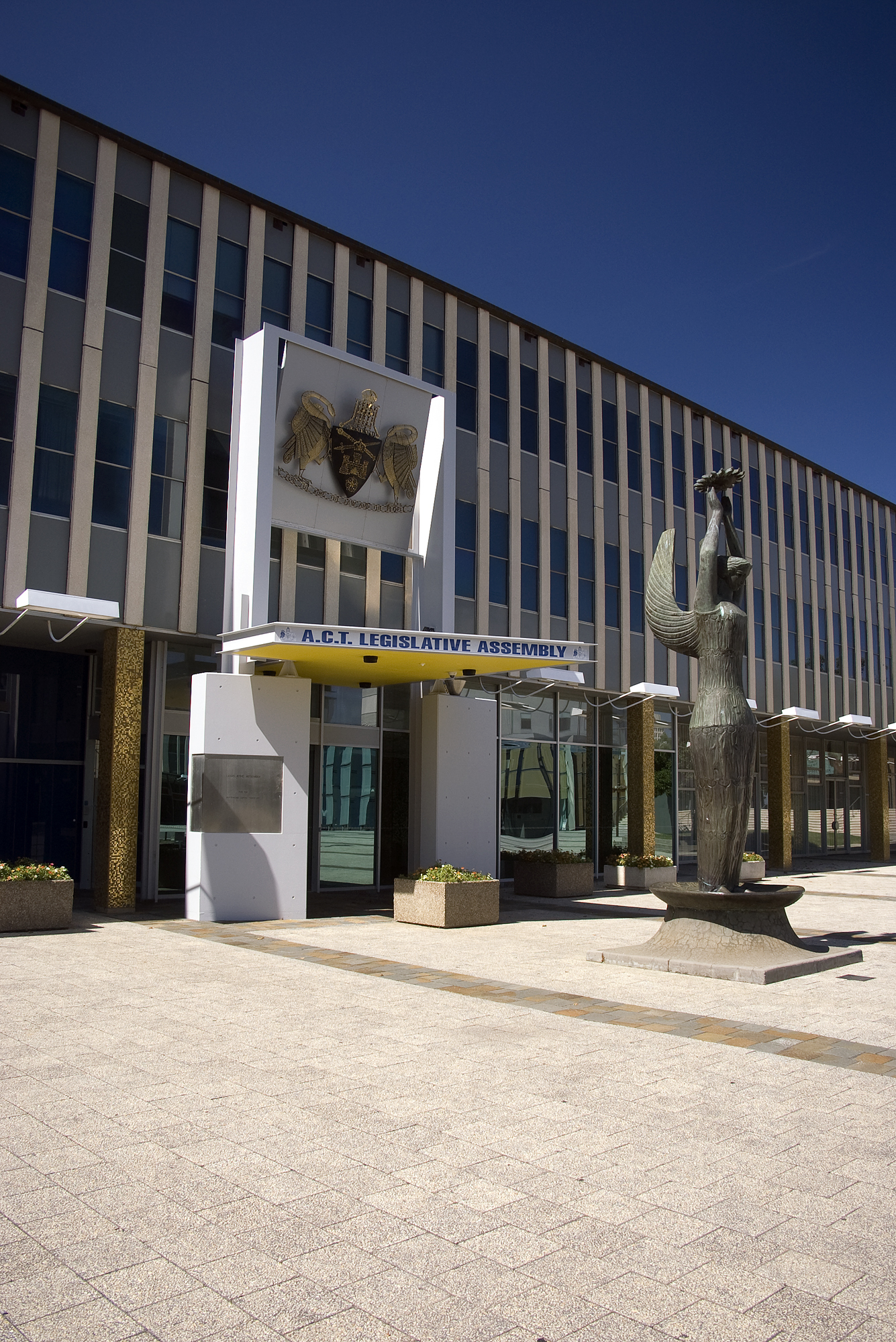 Australian Capital Territory Legislative Assembly and the statue Ethos (Tom Bass, 1961) viewed from Civic Square in Civic.